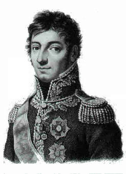 General Lefebvre-Desnouettes